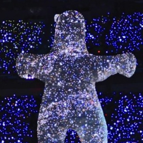 A 20-meter tall spirit bear puppet dances with the dancers during the 2010 Winter Olympics opening ceremony in Vancouver. Cropped image.